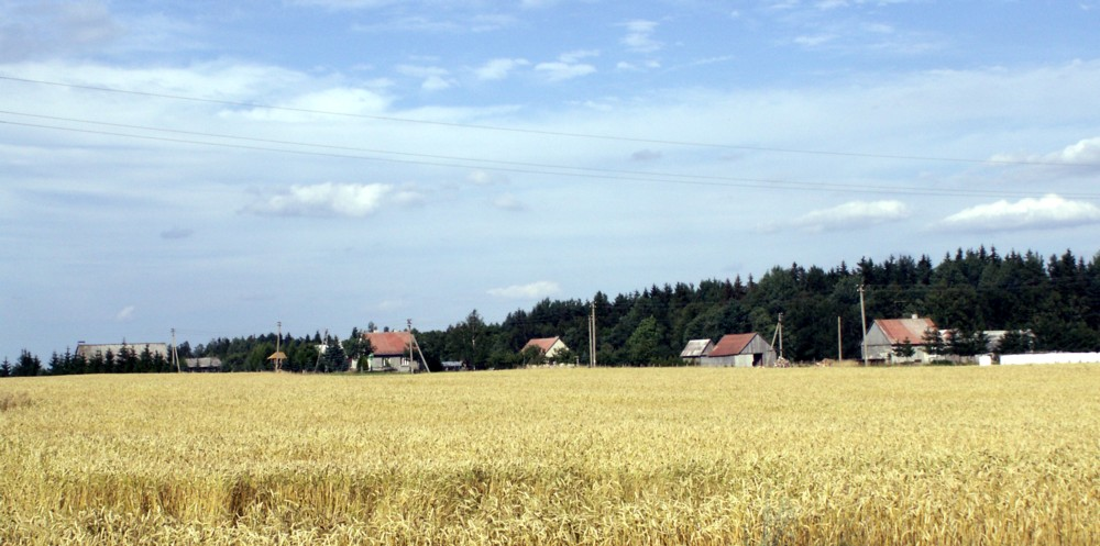 Kybarčiai, Šiauliai district, Lithuania